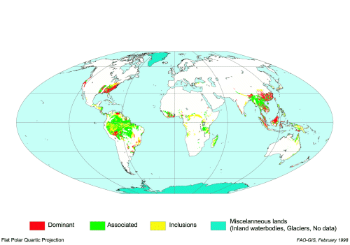 distribution of Acrisols